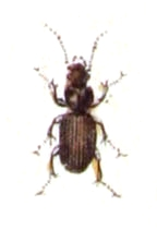 Olisthopus rotundatus, from Calwer's Käferbuch, Table 6, Picture 27. Taxonomy was updated to 2008, using mostly the sites Fauna Europaea and BioLib. Please contact Sarefo if the determination is wrong!